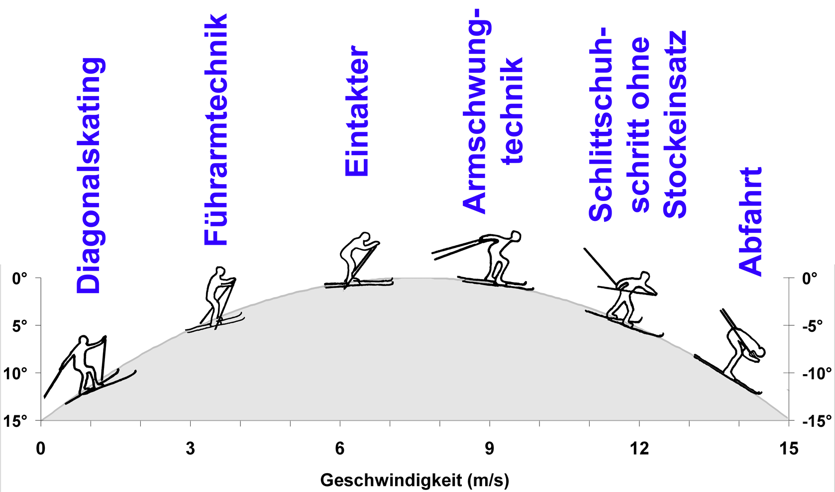 Modell like speed diagram for Skating in cross country skiing, dependency of techniques from fall of ground an speed